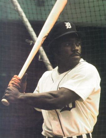 Professional baseball player Ron LeFlore